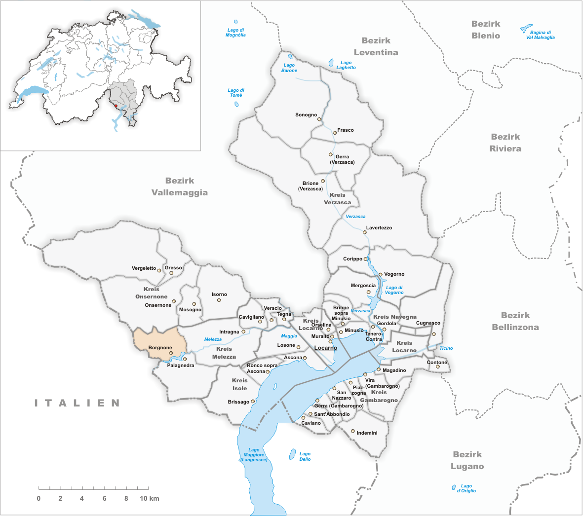 Municipality Borgnone